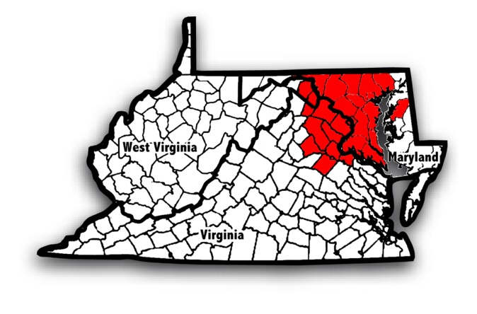 DC-Balt Metro area county map